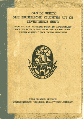 Cover of a book published in 1925: "Drie Brusselsche Kluchten uit de zeventiende eeuw", editor: P. de Keyser; with three comic theatre pieces by 17th century Brussels author Joan de Grieck